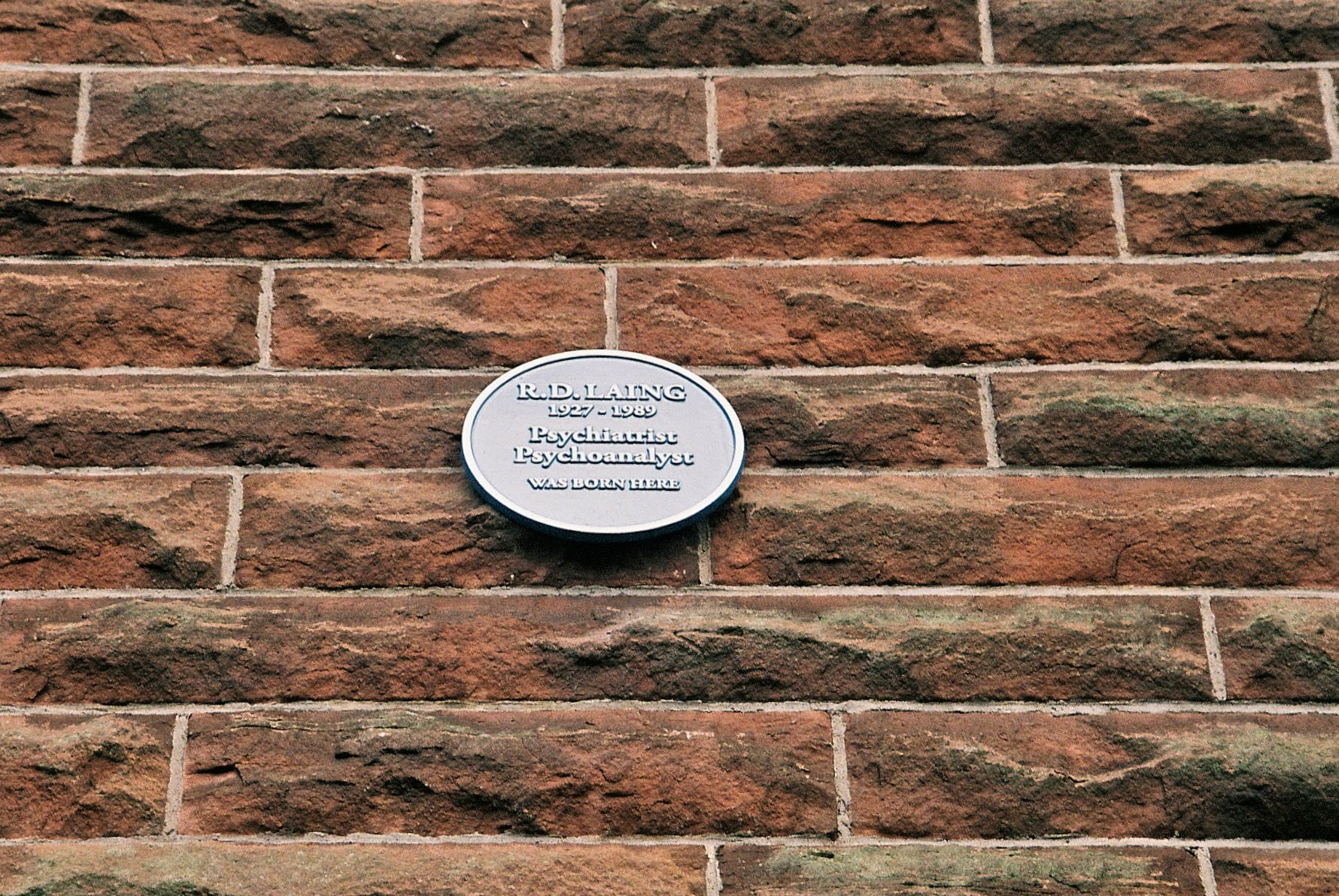 Plaque to R. D. Laing at his home in Glasgow.